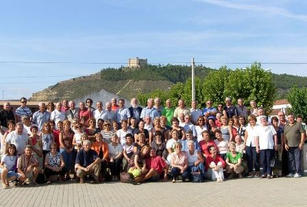 Français